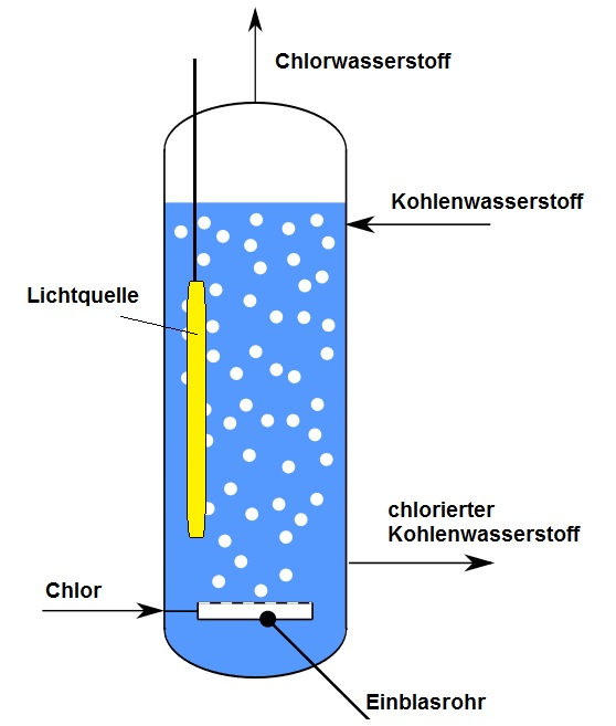 Bubble column reactor for photo chlorination reactions